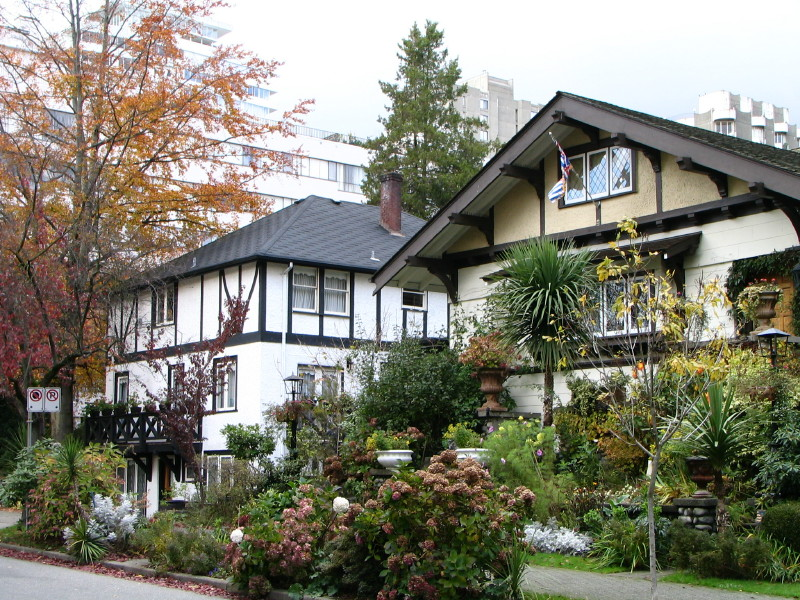 A couple of old heritage buildings on Comox Street, Vancouver, BC, Canada